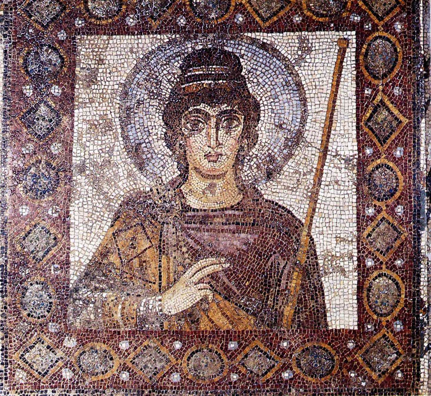 La Dame de Carthage, Carthage National Museum (Tunisia). The famous "Lady of Carthage" mosaic dated back probably to the 6th century, is traditionally regarded as a portrait of a Byzantine empress. The technique of alternating mosaic tiles and glass tiles, the fineness of the design and elegance of the subject make it a major piece of art mosaic from the Late Antiquity.